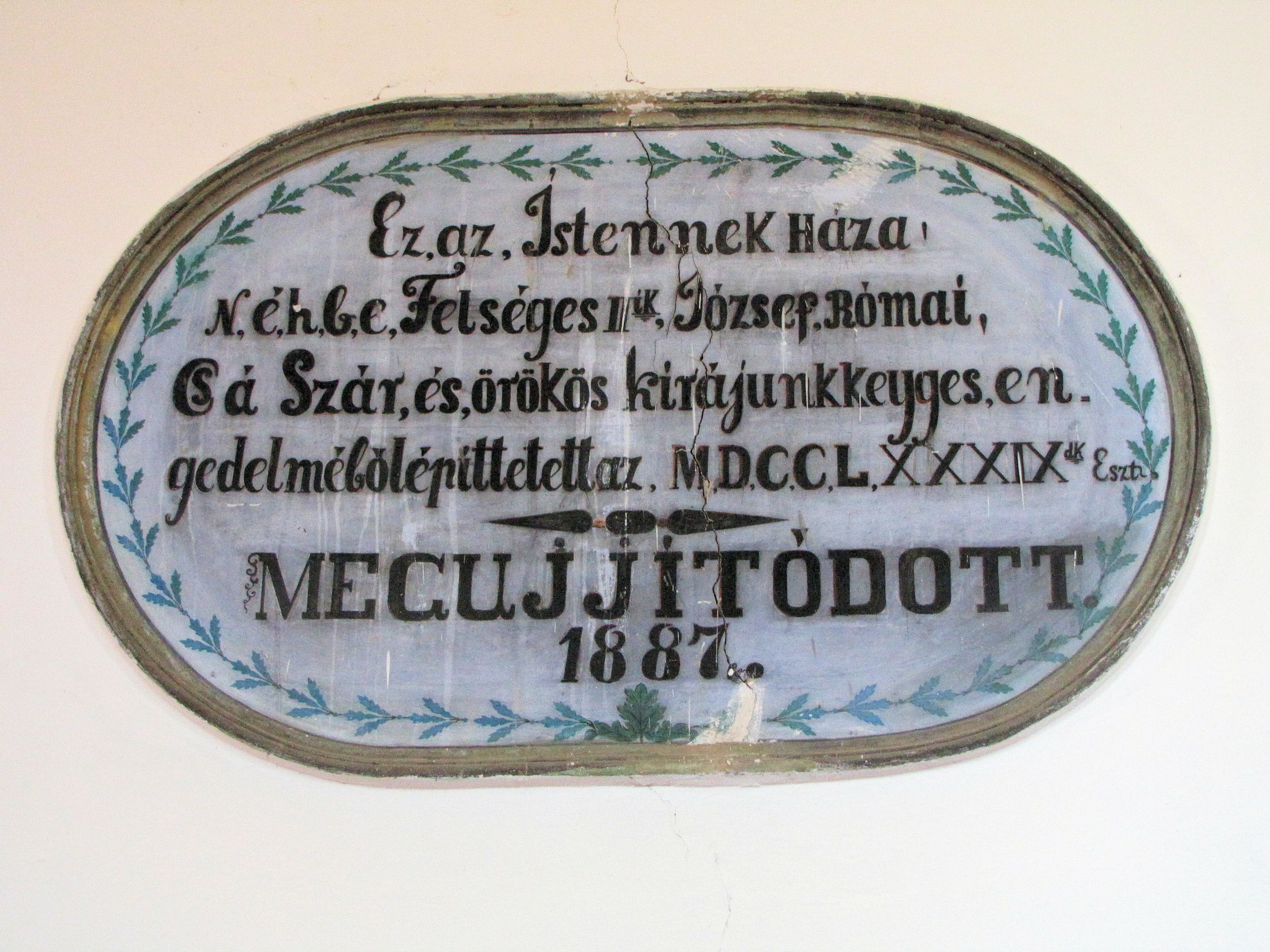 Inscription inside the Mikszáth street protestant church, Abádszalók, Hungary